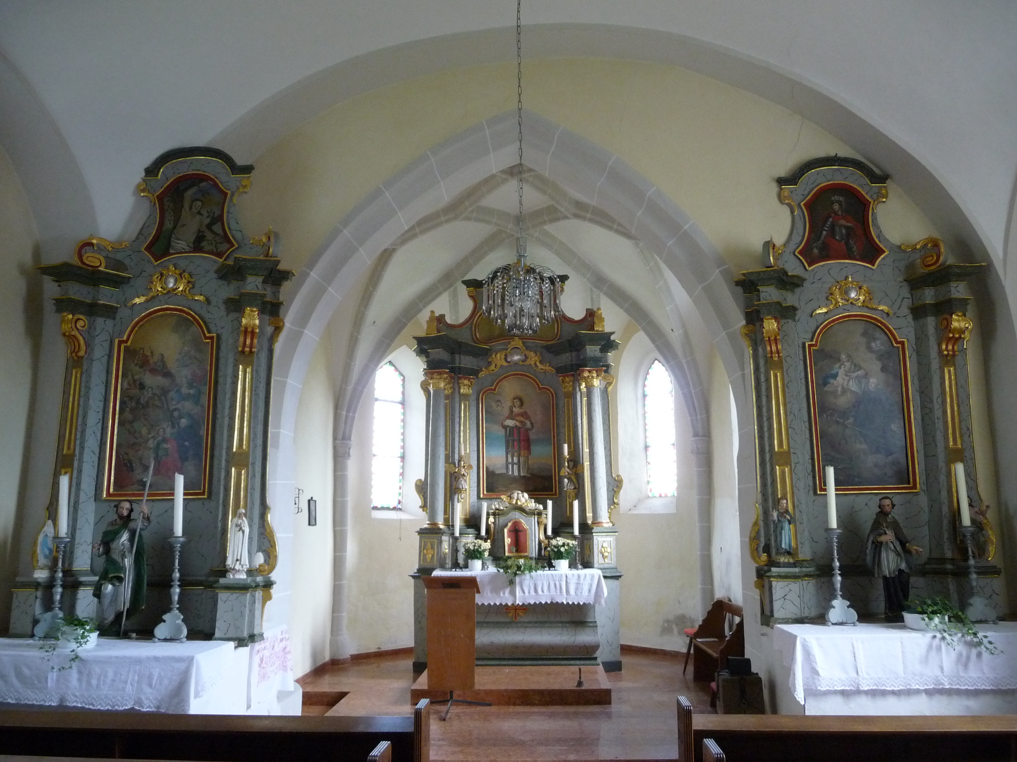 Church of Wagholming, interior, Taufkirchen an der Pram municipality, Upper Austria